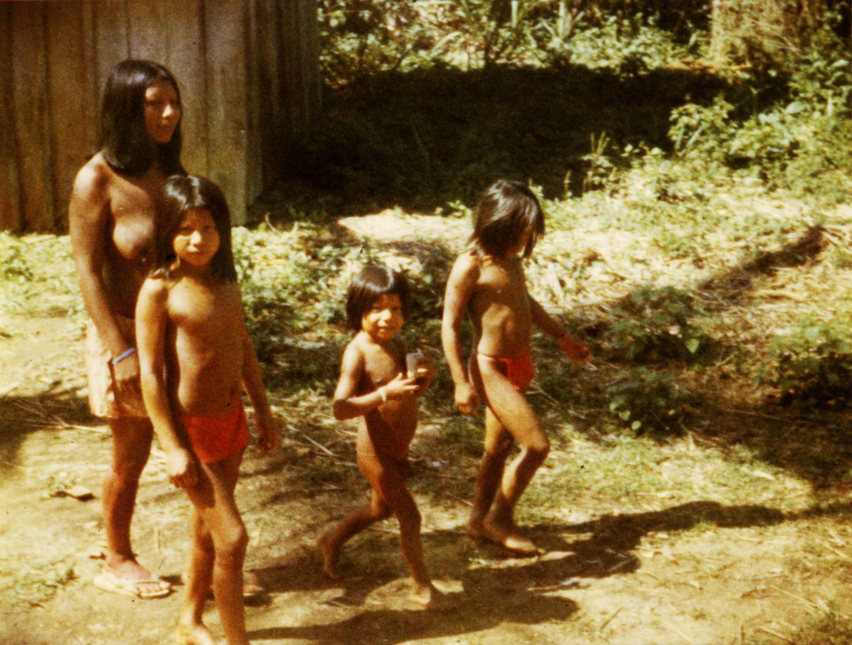 Photo taken in 1979. Daily life in the Wayana village of Antecume Pata in French Guiana. Wayana children.